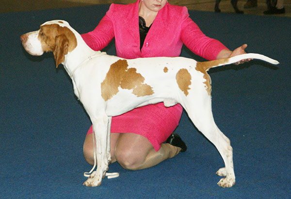 A male Ariege Pointer. Colour: white & orange.